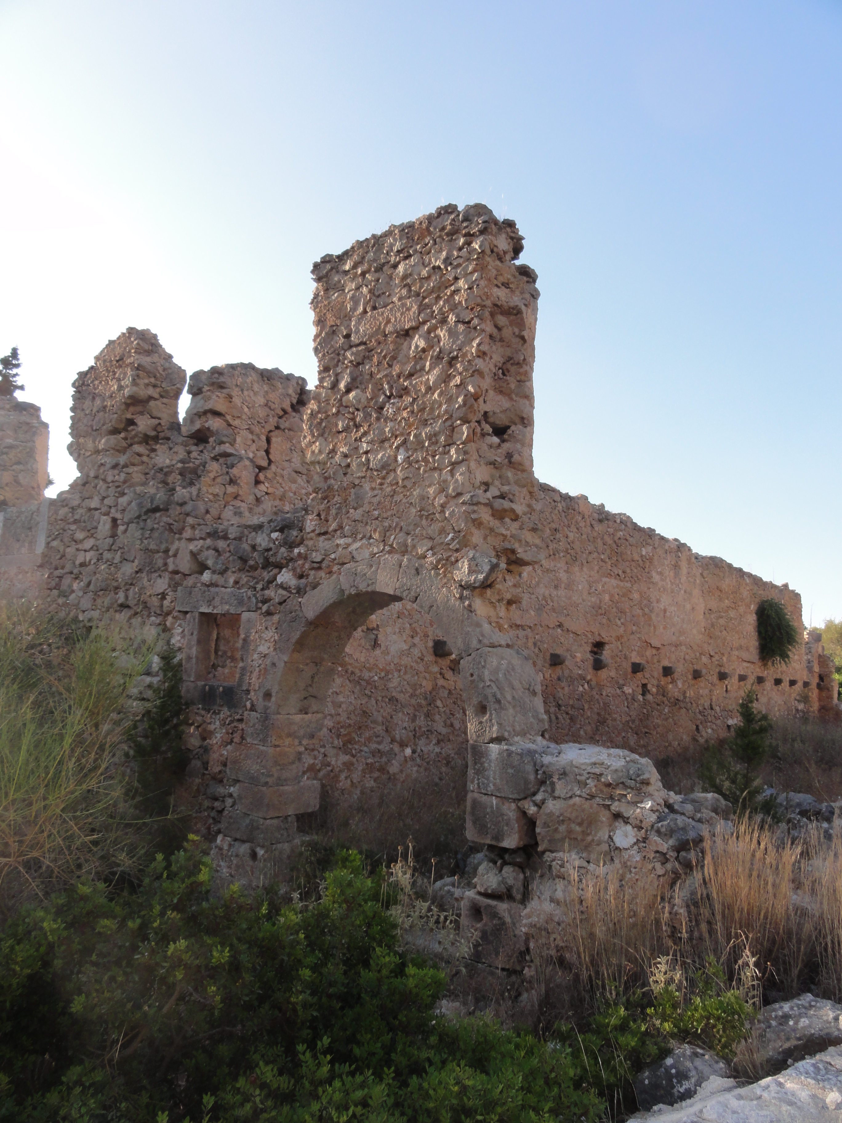 Photographs taken in Kefalonia.